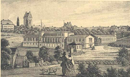 The shortlived Maglekilde Spa (Maglekilde Vandkuranstalt) which existed fgrom 1846 until 1851 in Roskilde, Denmark. The Building was demolished in 1972.